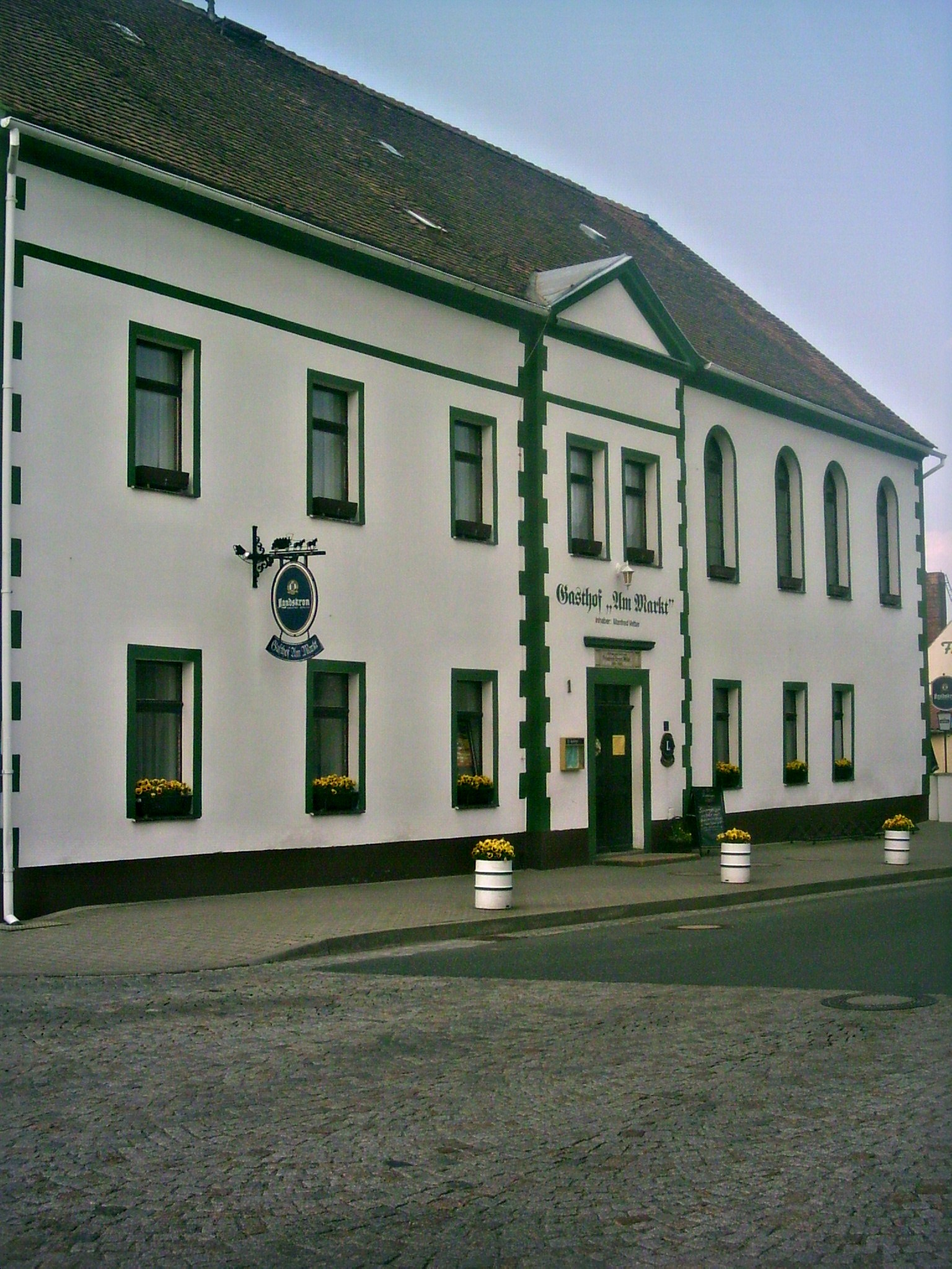 Restaurant Am Markt of Diehsa